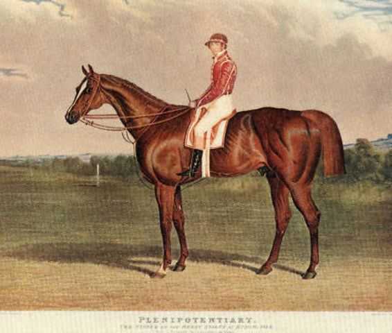 Plenipotentiary, 1834 Epsom Derby winner. By either Harry Hall or John Frederick Herring Snr. Artist dead for over 100 years.